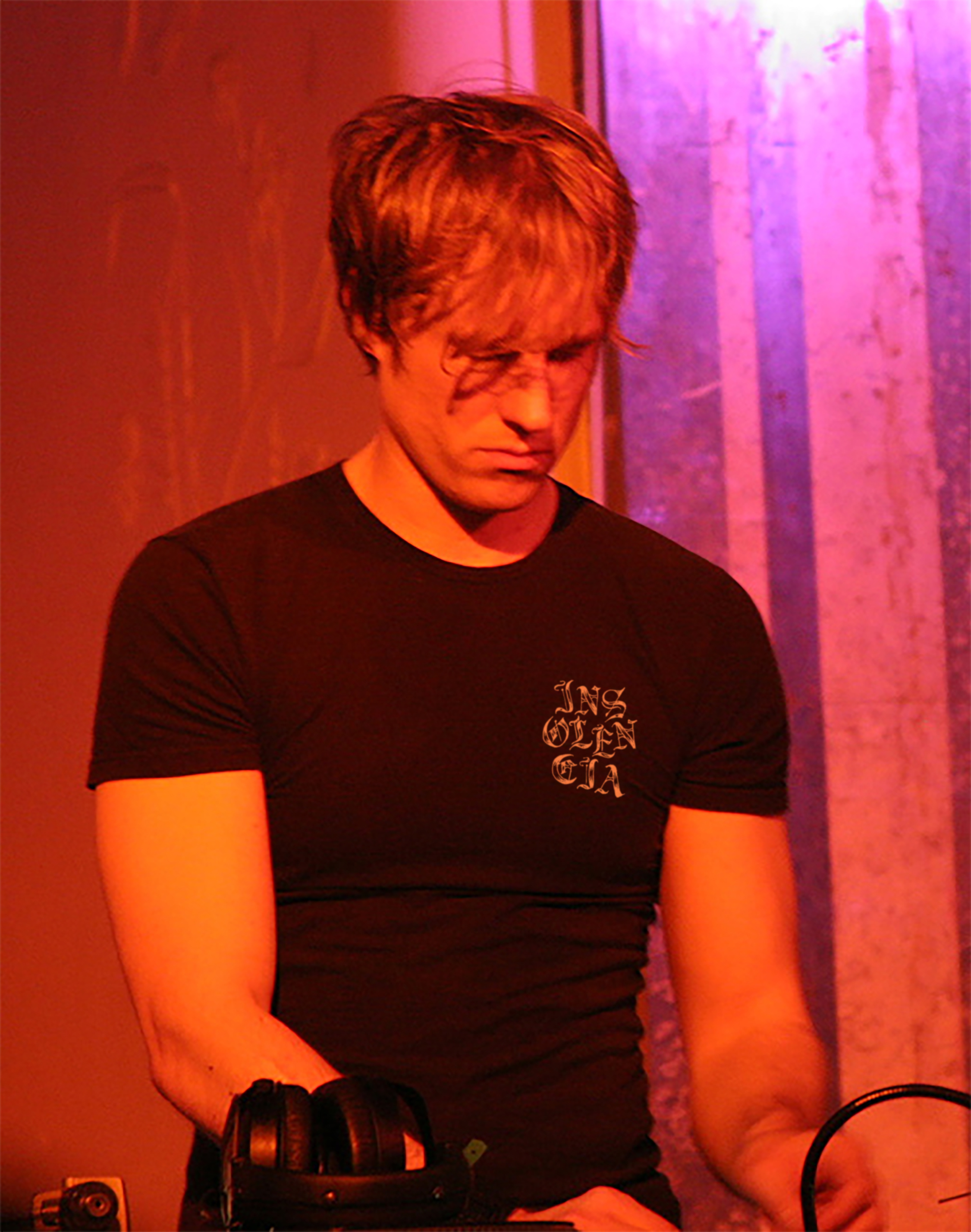 Alec Empire DJing at Throbbing Gristle's 2005-2006 New Year's Eve party